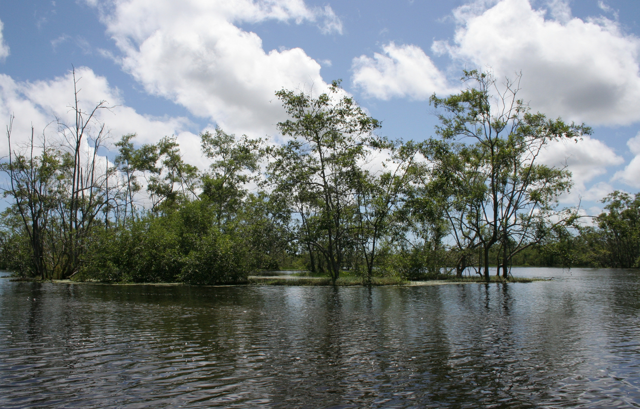 Bigi Pan Nature Reserve, Suriname. Lots of birds in these wetlands.